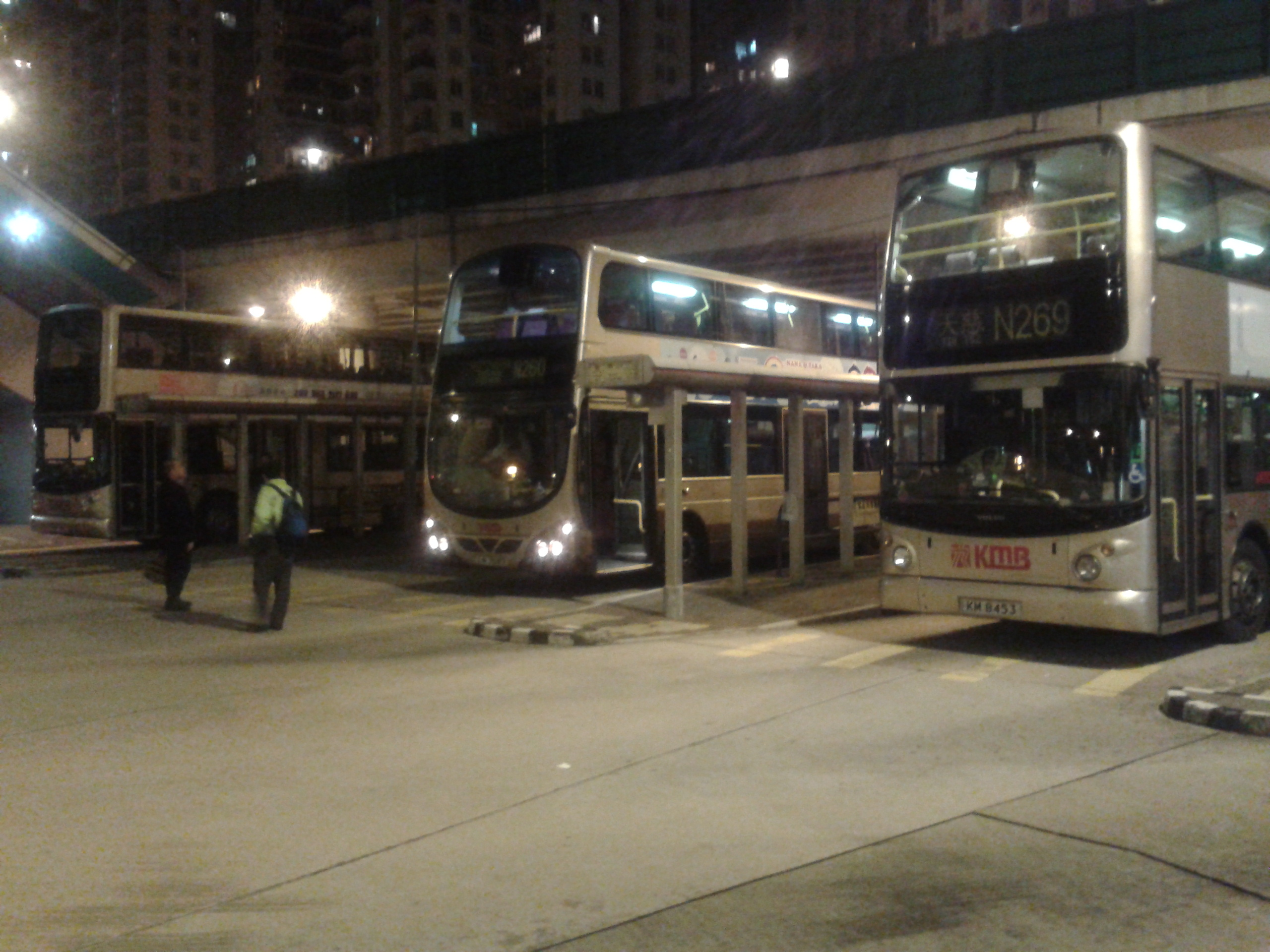 Midnight view of Mei Foo Bus Terminus